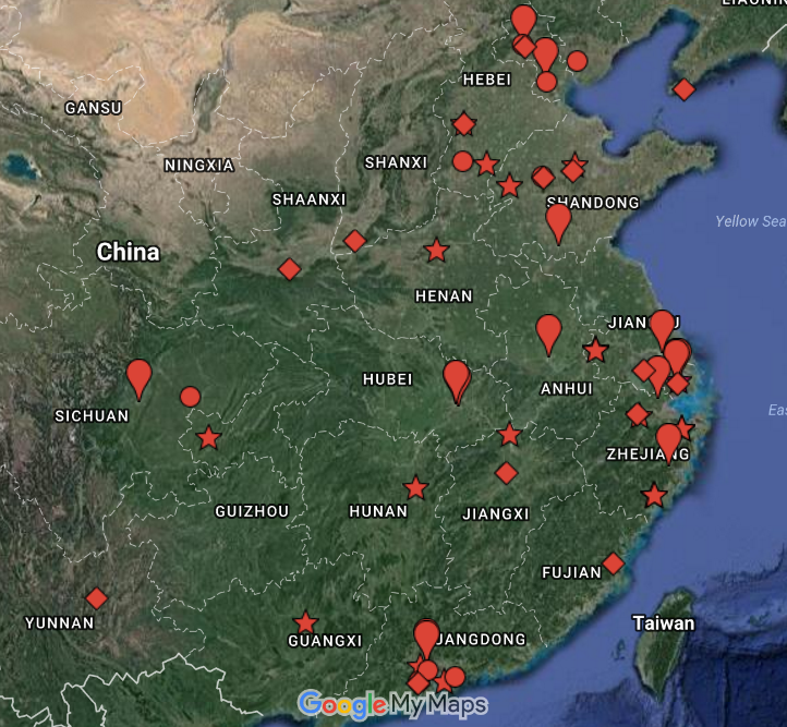 NPLD sites